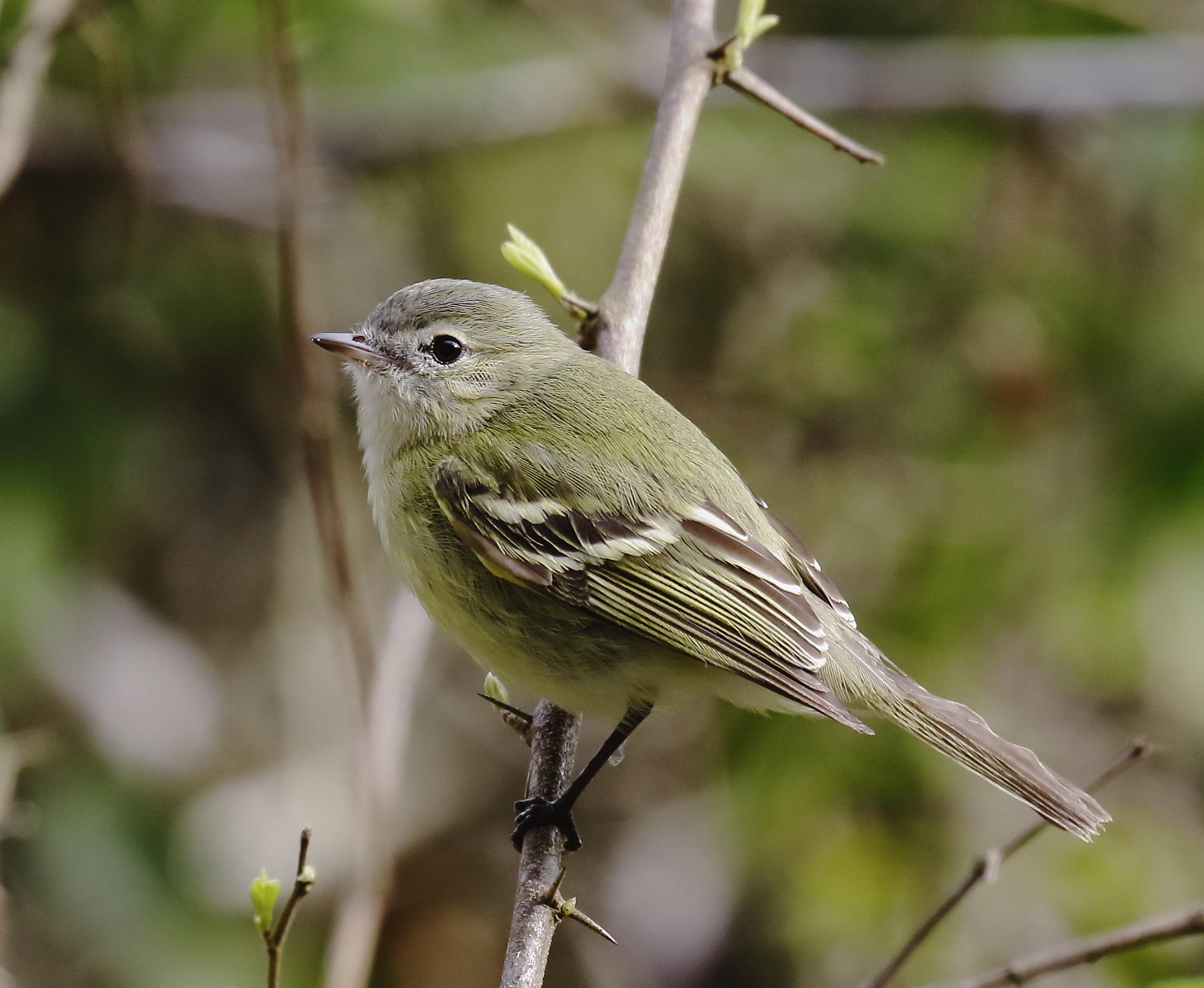 Reiser's tyrannulet at Poções, Bahia, Brazil